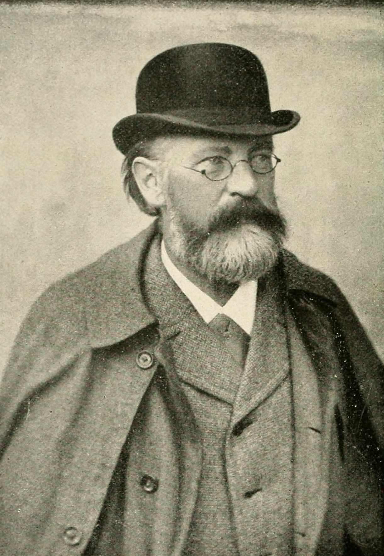 Friedrich August Wilhelm Thomas (1840-1918)